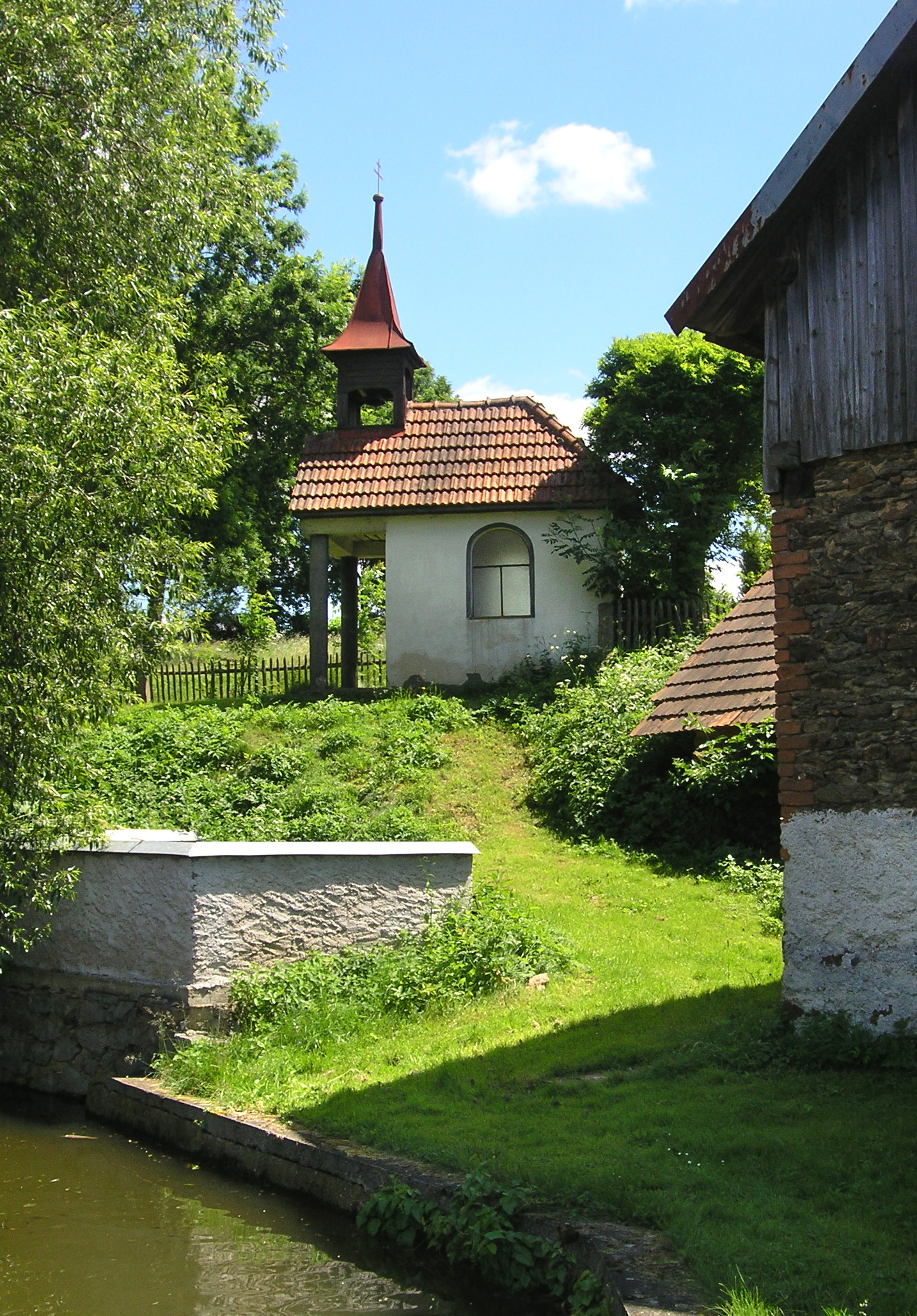 Chapel in Těškovice, part of Onšov village, Czech Republic